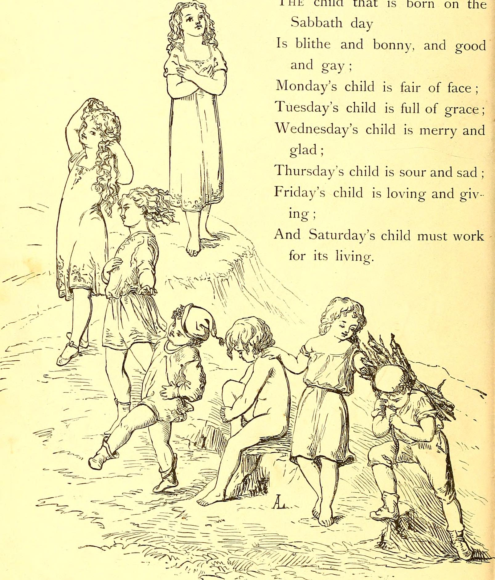 Title: St. Nicholas (serial) Year: 1873 (1870s) Authors: Dodge, Mary Mapes, 1830-1905 Subjects: Children's literature Publisher: (New York : Scribner & Co.) Text Appearing Before Image: -~. V^_o ■ v -V THE WONDERFLL POPPIES. 58 FOR VERY LITTLE FOLKS. (November, CHILDREN OF THE WEEK. The child that is born on theSabbath day Is blithe and bonny, and goodand gay; Mondays child is fair of face ; Tuesdays child is full of grace; Wednesdays child is merry andglad; Thursdays child is sour and sad ; Fridays child is loving and giv-ing ; And Saturdays child must work Text Appearing After Image: (See Letter-Box.) *7°.) YOUNG CONTRIBUTORS DEPAR T M KNT. 59 YOUNG CONTRIBUTORS DEPARTMENT. LETTKR FROM WINKIE WEST. Moretand, Oct. 12, 1875-i CHiPfV, old boy, it seems to me that I never had such fun in all myTe as 1 had last summer. It was at a place called Woodbury. You ont find it on any map, I guess; but that is the real name. When:hool was out in June, we staid about home for a week or two, and,ien a letter came from Uncle Jacob and Aunt Hannah, ashing us if e didnt want to come and slay the rest of the summer on the farm,/e got the letter about dinner-time ; but I wasnt hungry after that.1 other would nt let me go and tell Walt about it until after dinner.ve didnt have anything extra; but it did take them the longestme to get through. Well, you can bet that Walt was glad when I told him, and weegan to get ready at once. Walts old rifle had to be got down andeaned; then we had to lay in some powder and shot. I had to getle a new pocket-knife, and then there was a lot of other t